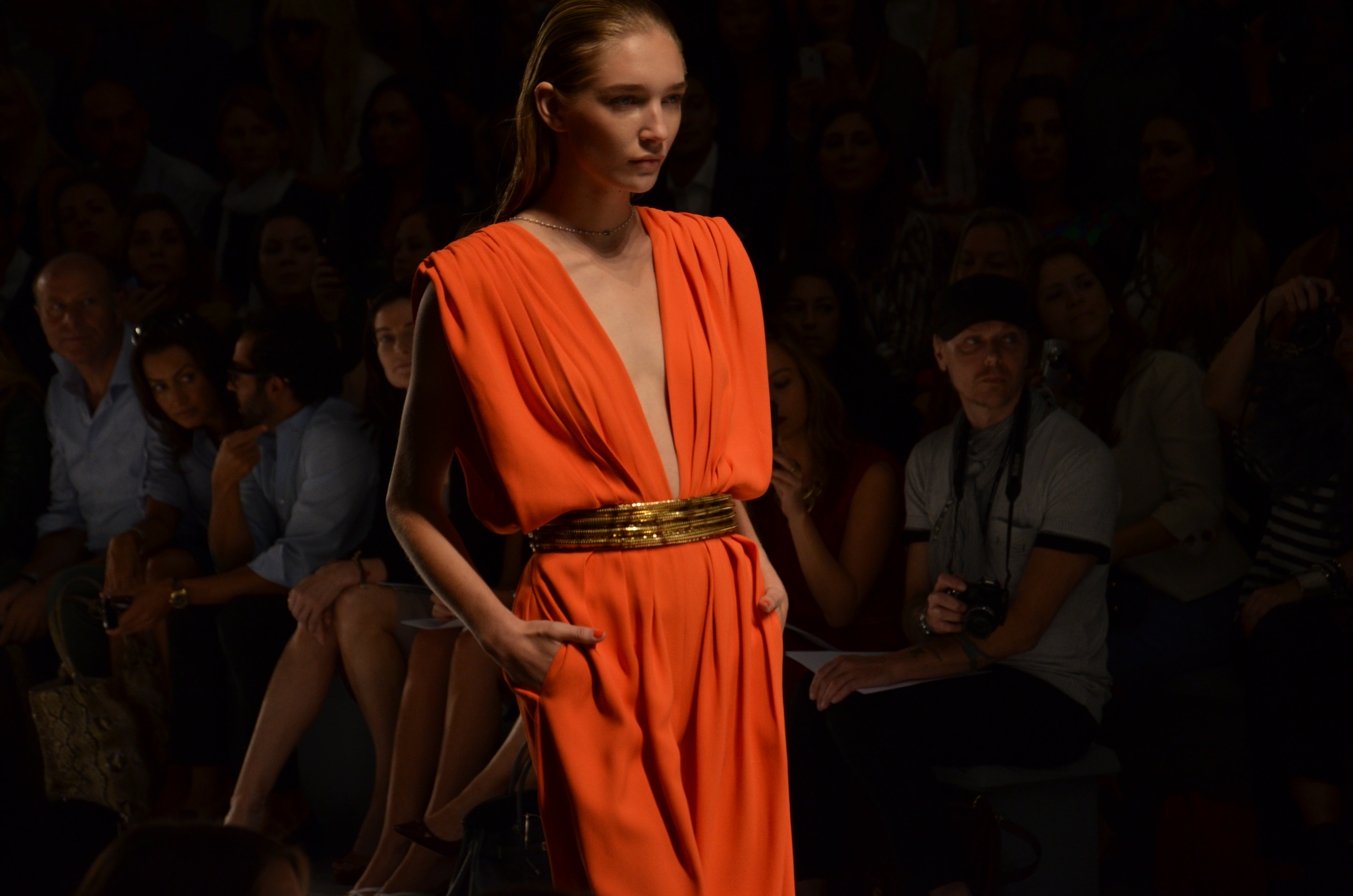 Carlos Miele fashion label dress, 2011